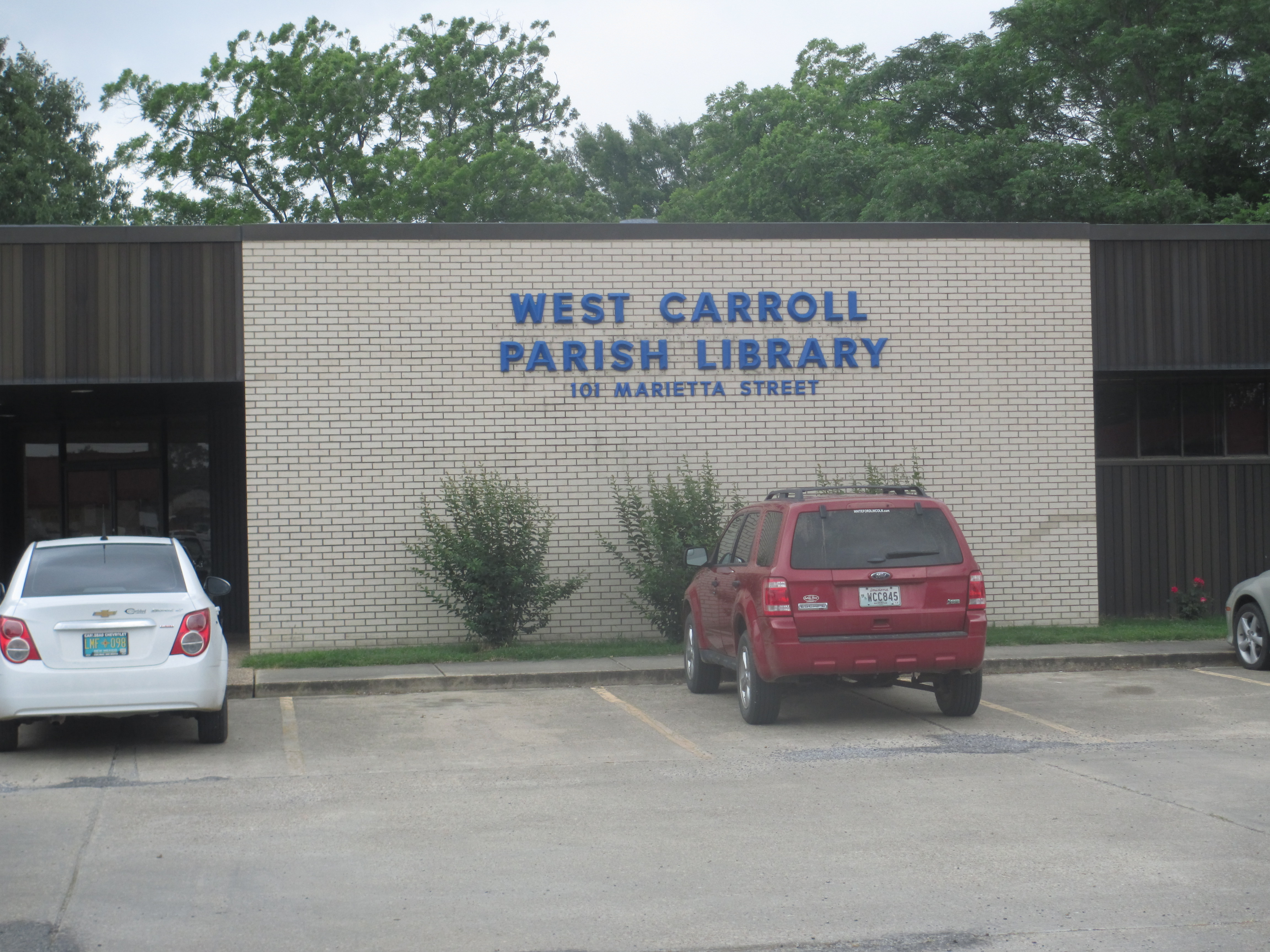 I took photo of West Carroll Parish Library in Oak Grove, LA, with Canon camera.